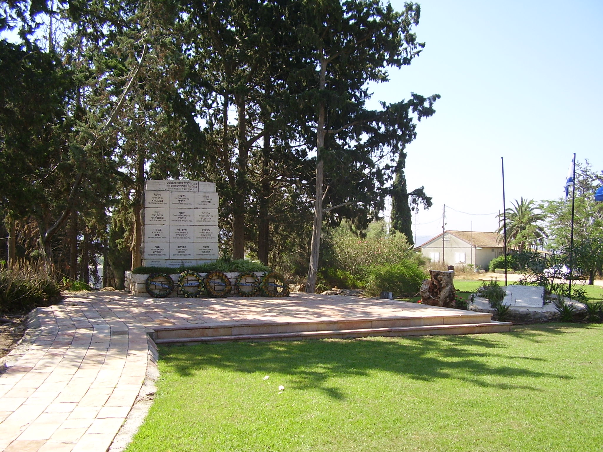 Alexandroni Brigade memorial in Tantura